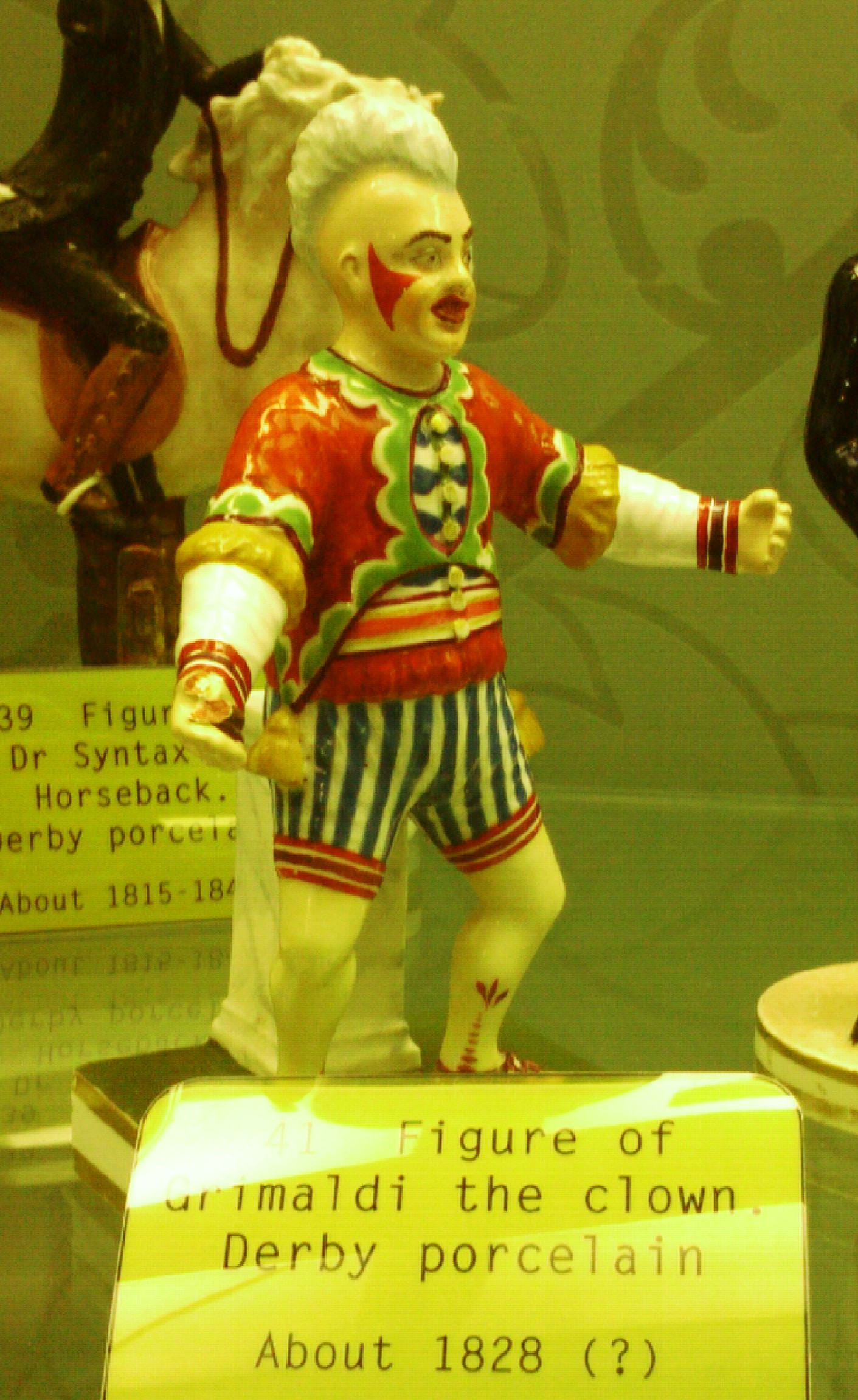 Pottery figure of Joseph Grimaldi - clown